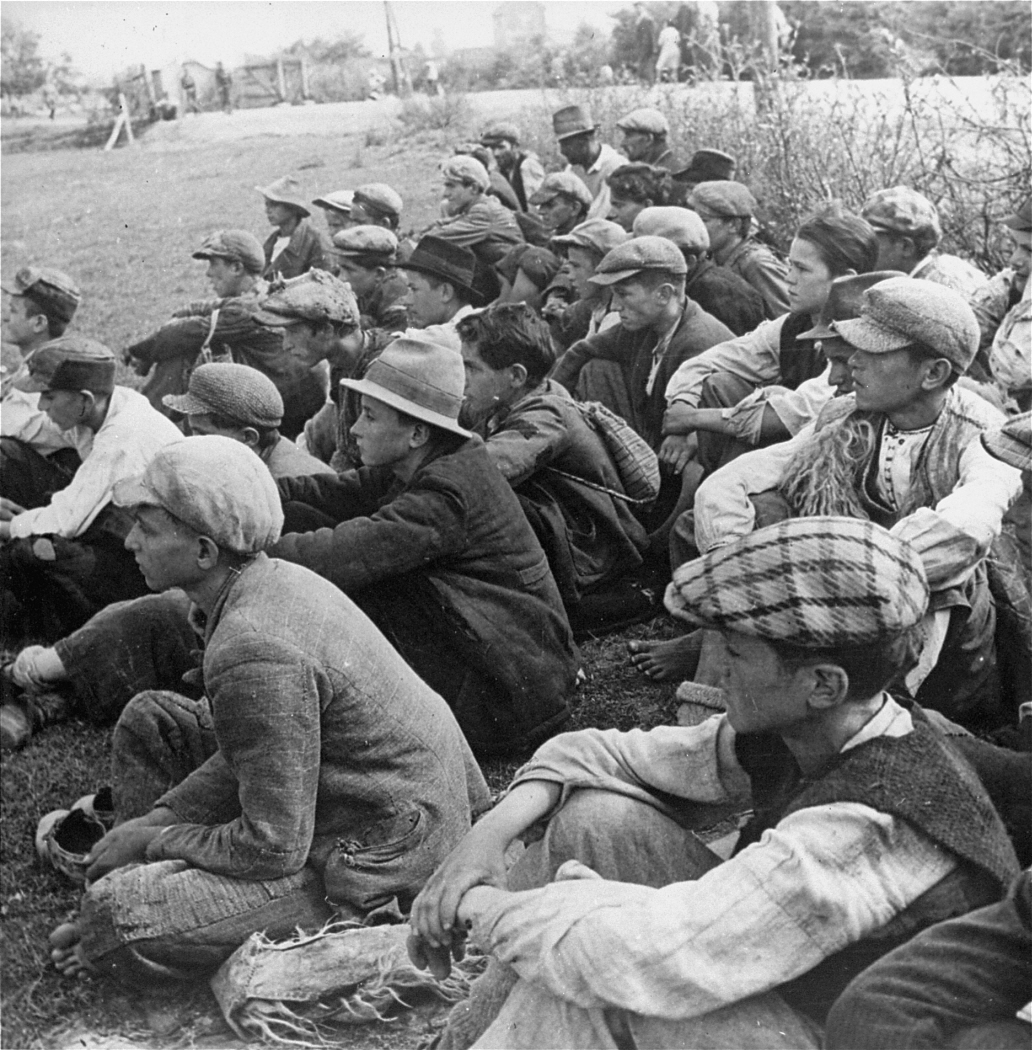 Prisoners seated in a field in the Stara Gradiska concentration camp.